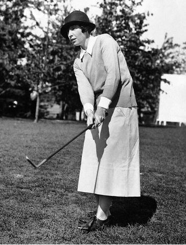 A circa 1918 photo of American amateur golfer Alexa Stirling Fraser (1897-1977).